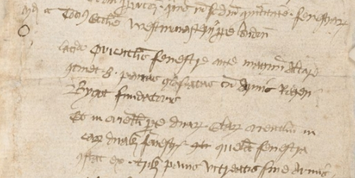 Willelmus Worcestre, Itinerarium (MS. CCCC Parker 210) p. 5 media